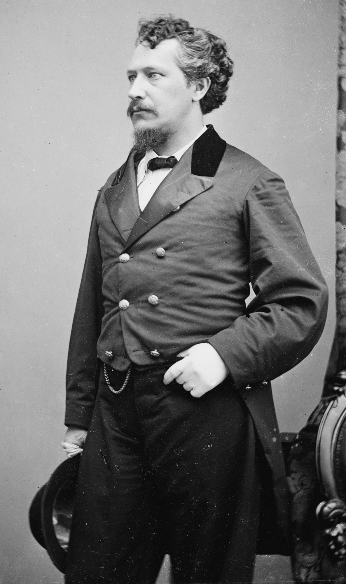 George Francis Train CALL NUMBER: LC-BH82- 4749 A-2 [P&P] REPRODUCTION NUMBER: LC-DIG-cwpbh-01724 (b&w copy scan) No known restrictions on publication. MEDIUM: 1 negative : glass, wet collodion. CREATED/PUBLISHED: [between 1855 and 1865] NOTES: Title from unverified information on negative sleeve. Forms part of Brady-Handy Photograph Collection (Library of Congress). FORMAT: Portrait photographs 1850-1870. Glass negatives 1850-1870. REPOSITORY: Library of Congress Prints and Photographs Division Washington, D.C. 20540 USA DIGITAL ID: (b&w scan) cwpbh 01724